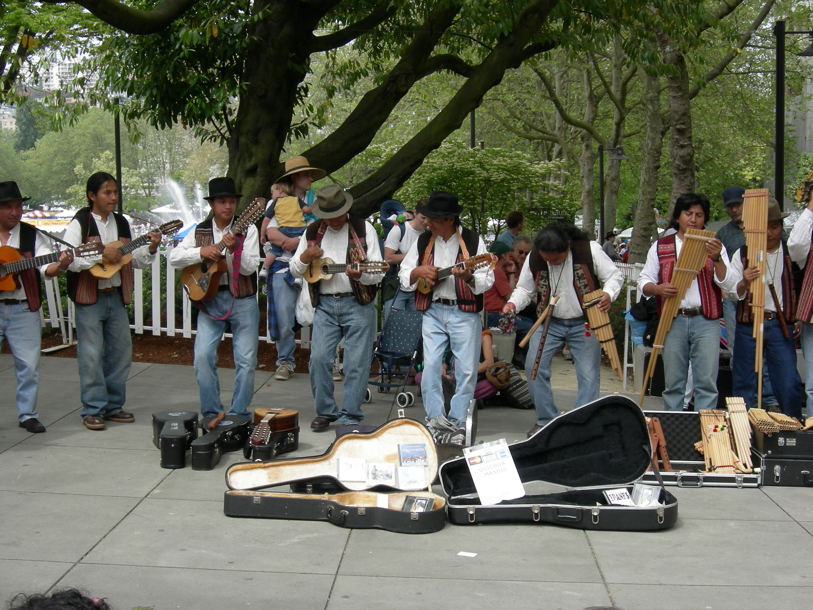 Andean musicians busking at Northwest Folklife Festival, Seattle Center.